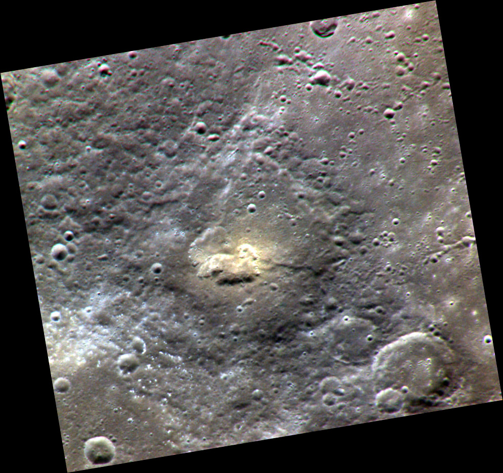 Enheduanna crater on Mercury. Approximate color representation combining three images acquired by MESSENGER Wide Angle Camera (EW1006148309G, EW1006148313F, EW1006148317I) with I (996.2 nm), G (748.7 nm), and F (433.2 nm) filters. Combined in GIMP software as RGB (Red-Green-Blue), and then rotated so that north is up. Statistics for I image: Emission Angle: 0.2 Incidence Angle: 55.0 Latitude: 33.4 Longitude: 263.4 Phase Angle: 54.9